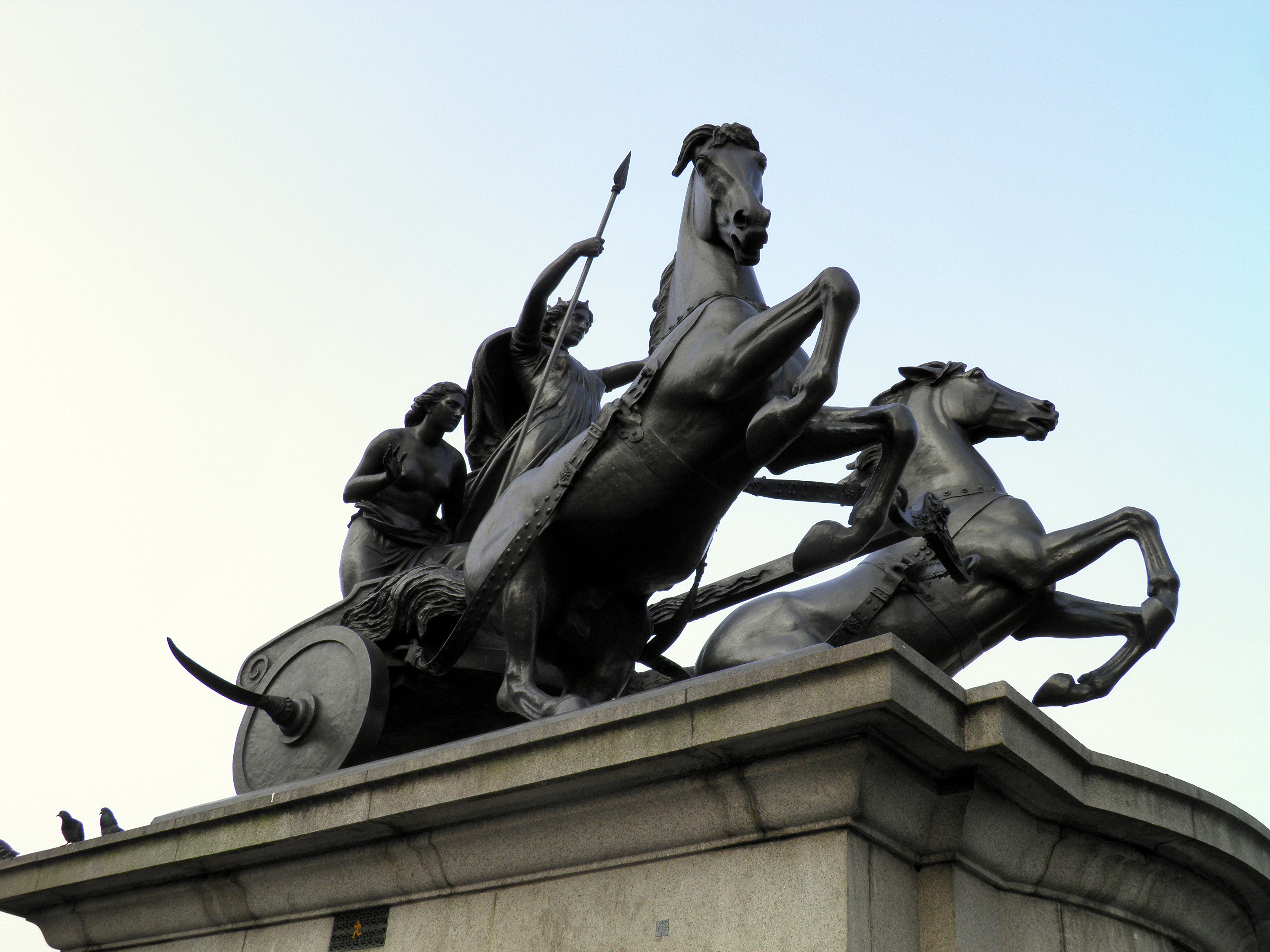 The bronze statue of Boudica with her daughters in her war chariot (furnished with scythes after the Persian fashion) was commissioned by Prince Albert and executed by Thomas Thornycroft. It was completed in 1905 and stands next to Westminster Bridge and the Houses of Parliament, with the following lines from Cowper's poem, referring to the British Empire: Regions Caesar never knew Thy posterity shall sway.